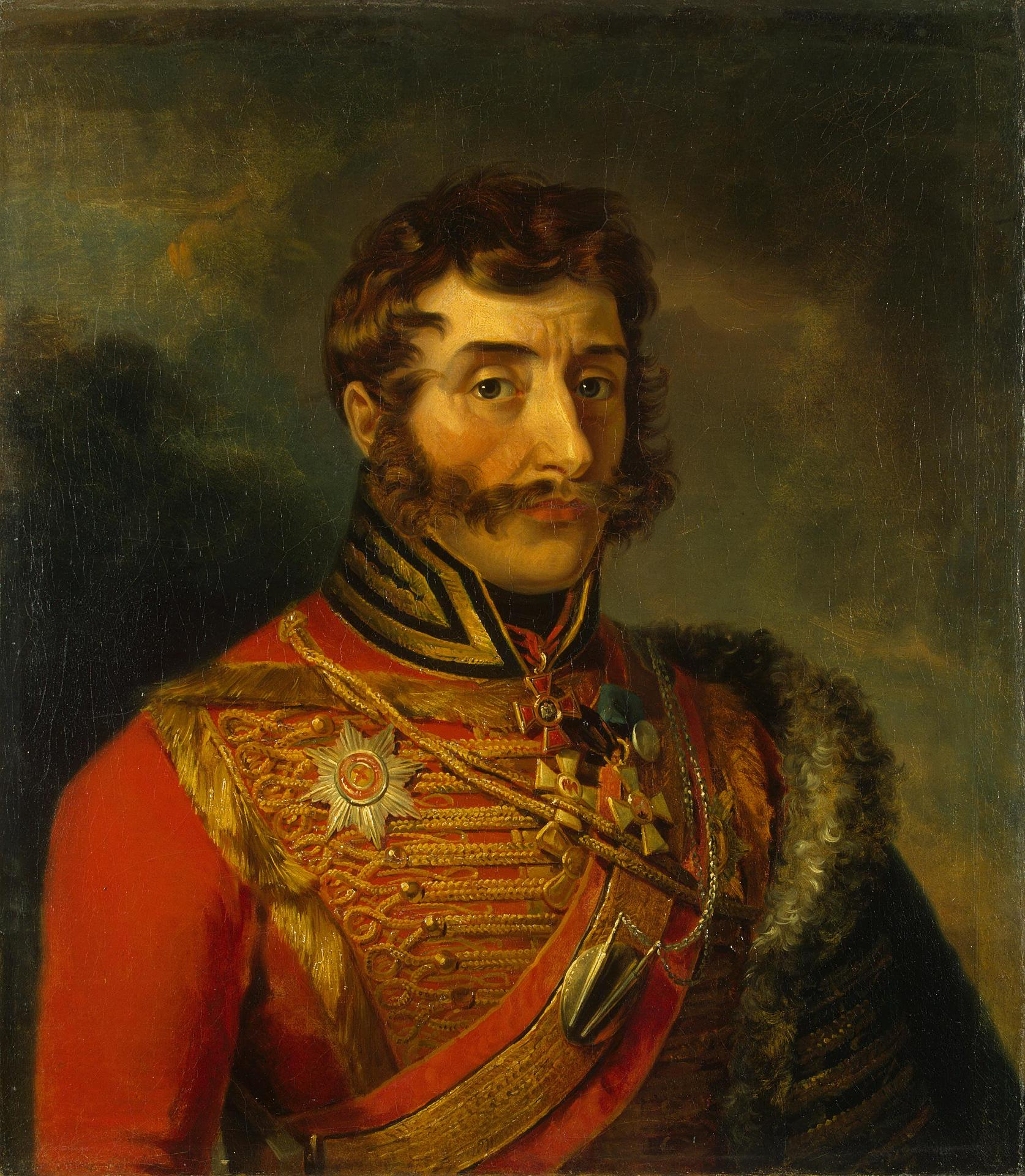 Dorokhov, Ivan Semyonovich - by Geo Dawe 1823-1825 S-Peterburg, Winter Palace War Gallery)